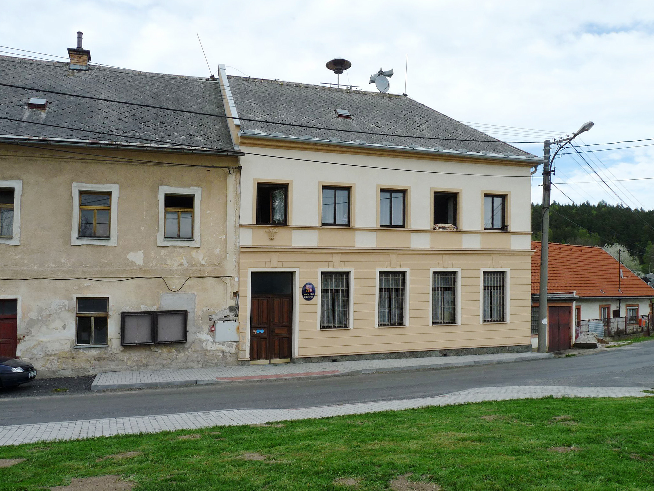 Municipal office building in the municipality of Chlistov, Klatovy District, Czech Republic